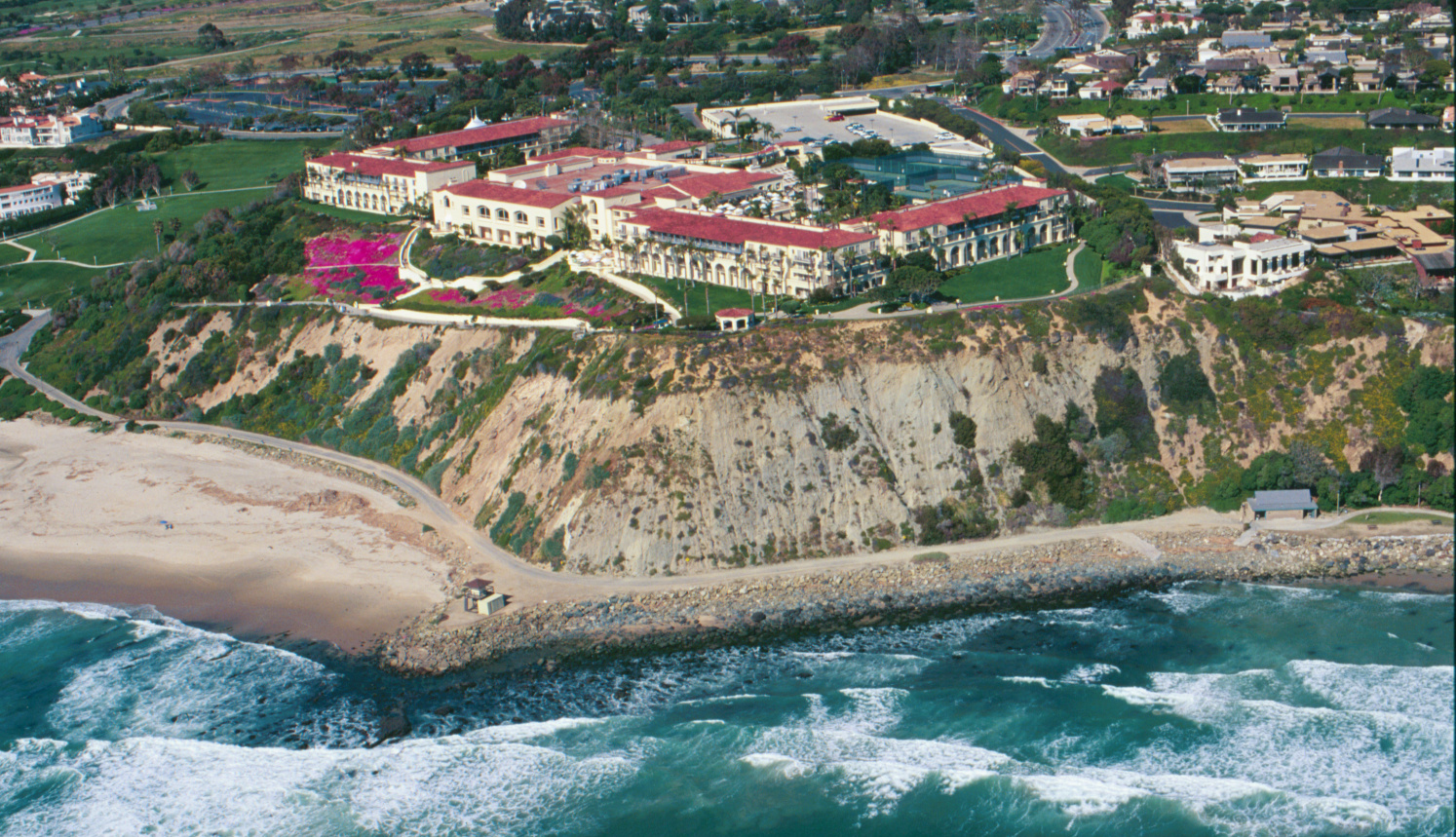 Southern California - Location 31 - 33° 28.44' N 117° 43.58' W taken 4/98, after winter El Nino storms